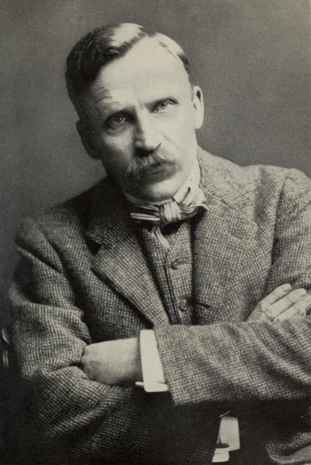 Portrait of S. S. McClure